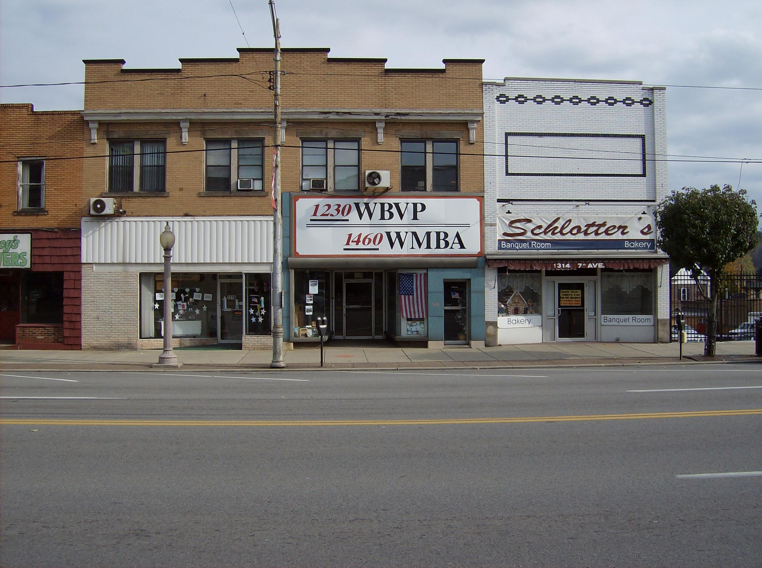 Headquarters for the radio stations WBVP and WMBA at 1316 7th Ave. (Route 18) in downtown Beaver Falls, Pennsylvania, United States.